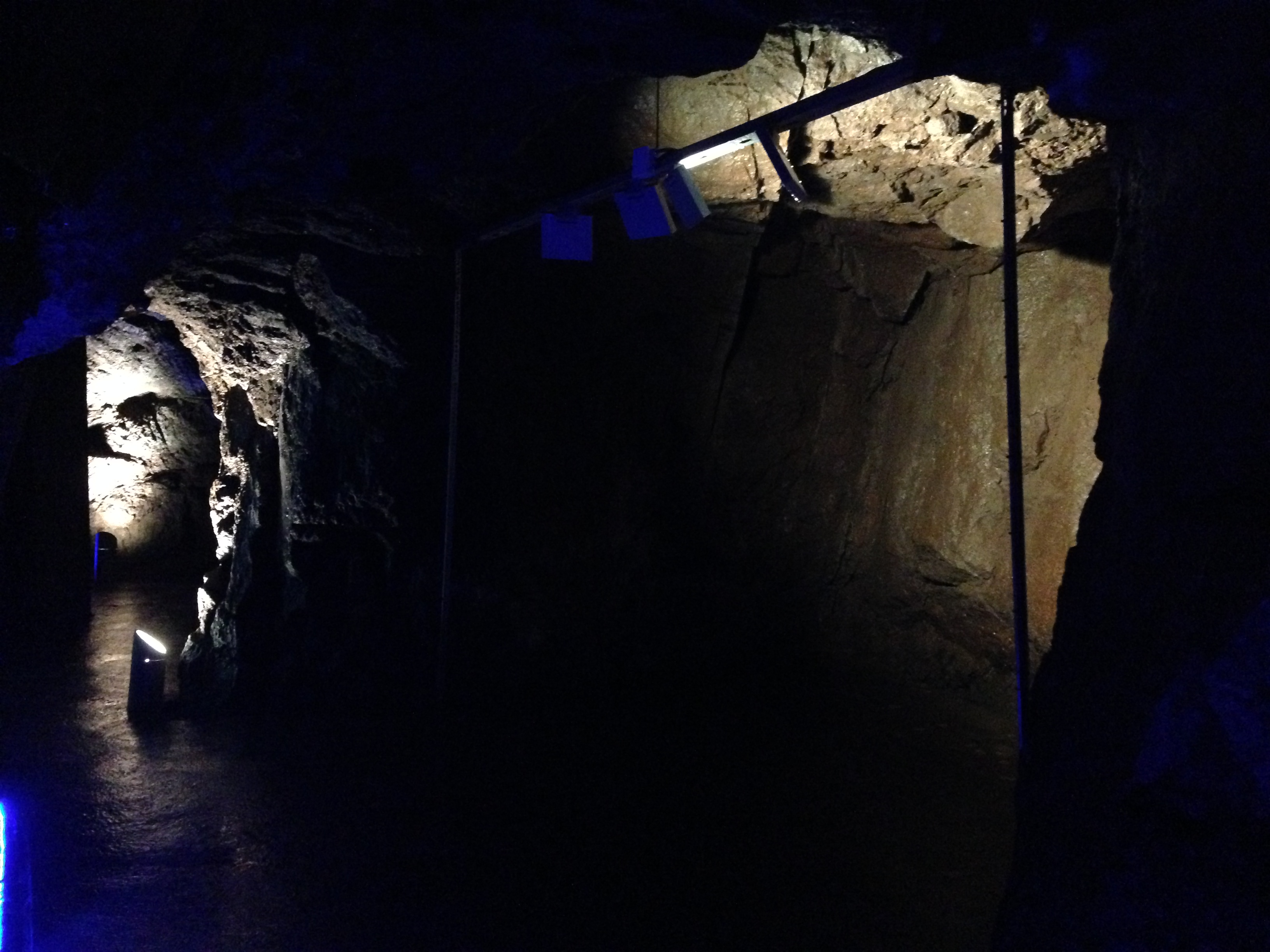 Inside the bunker